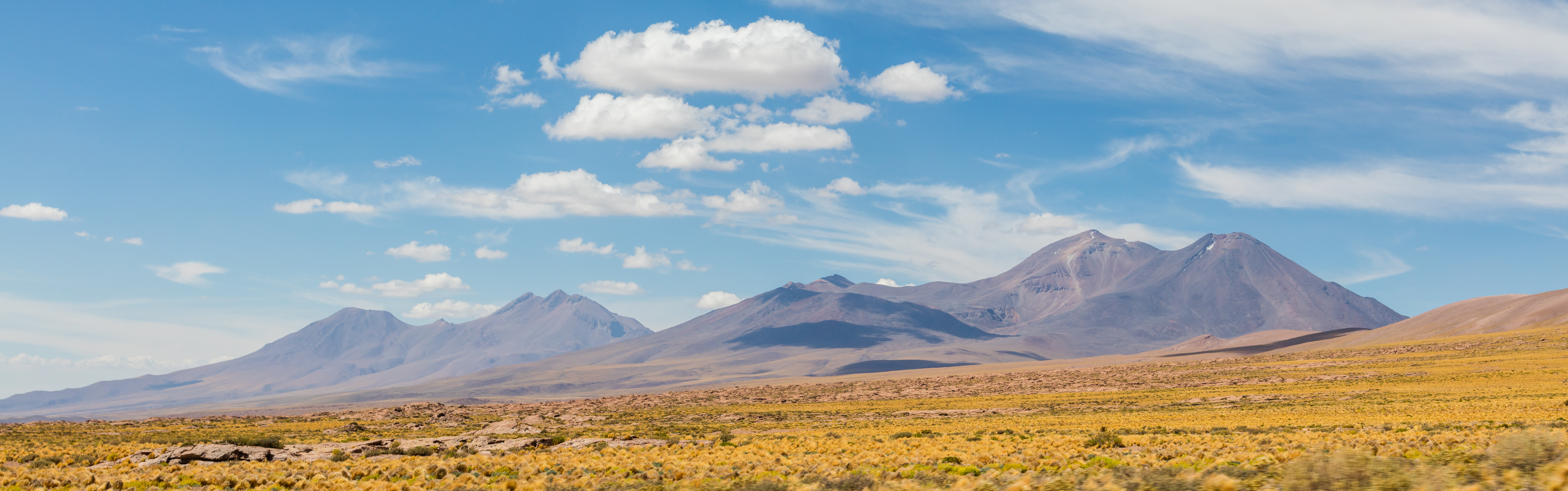 Tumisa and Lejía volcanoes, San Pedro de Atacama, Chile